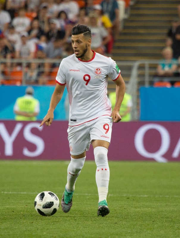 Anice Badri